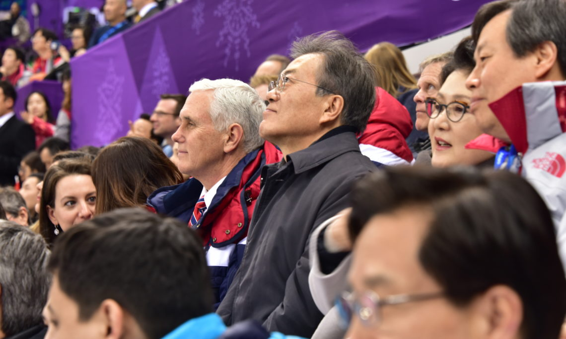 February 10, 2018 – U.S. Vice President Mike Pence watched Short Track Speedskating with President Moon Jae-in and cheered on the athletes. The Vice President was in the Republic of Korea to lead the Presidential Delegation to the 2018 Olympic Winter Games in PyeongChang.